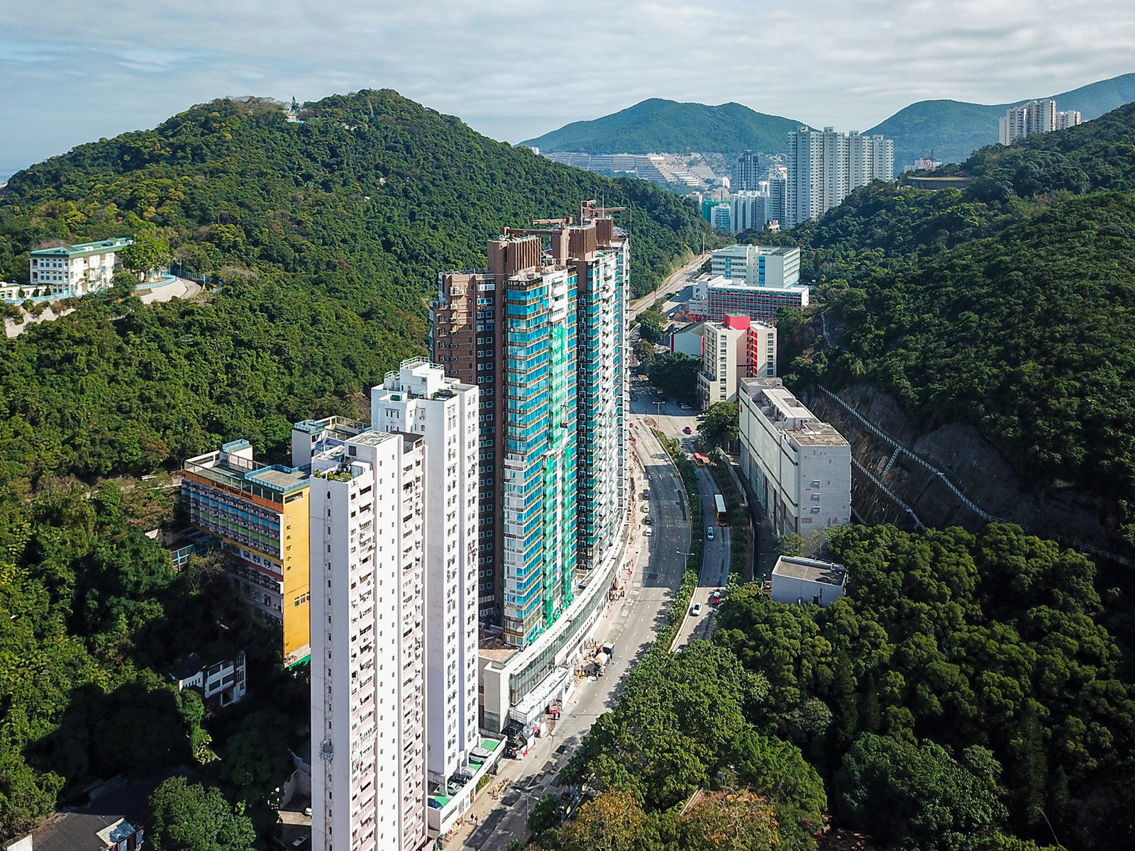 Chai Wan Road